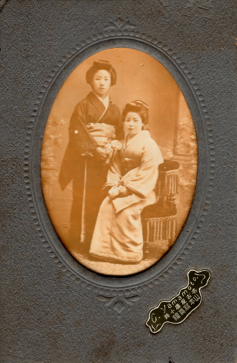 Yamamoto Goro Photo Studio, Right:Tsu, Wife